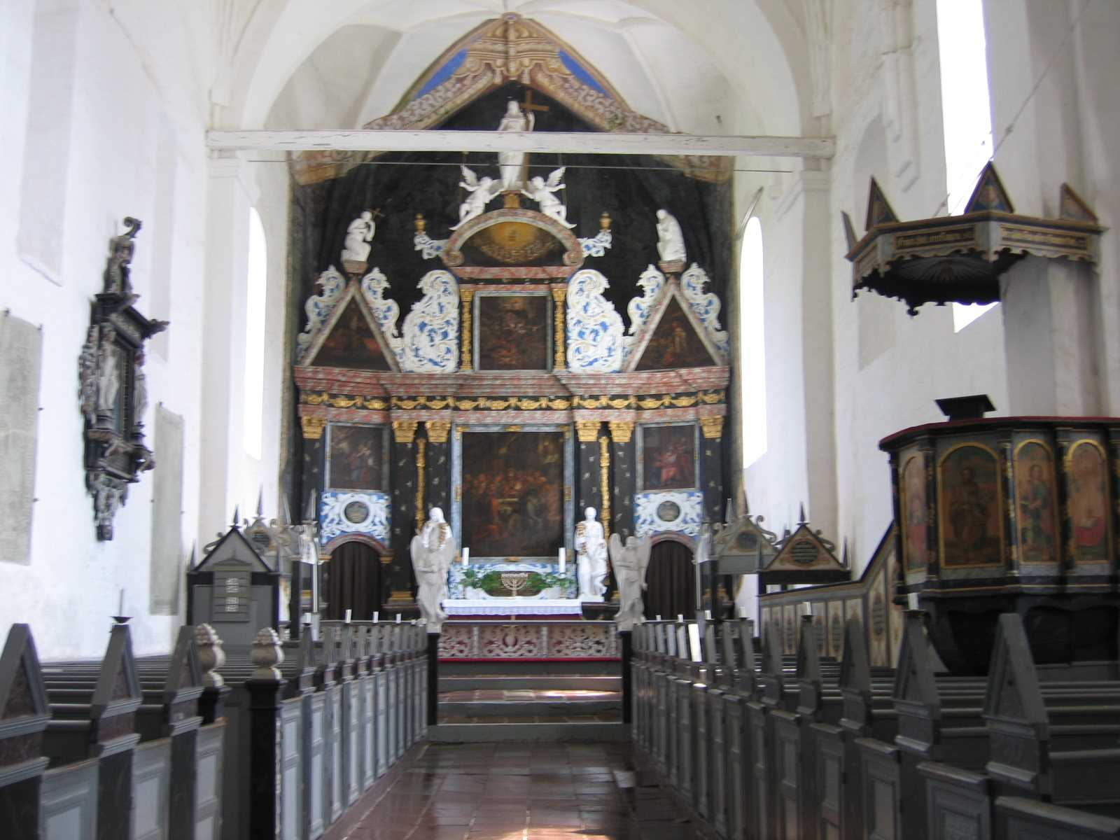 Church of Børglum kloster